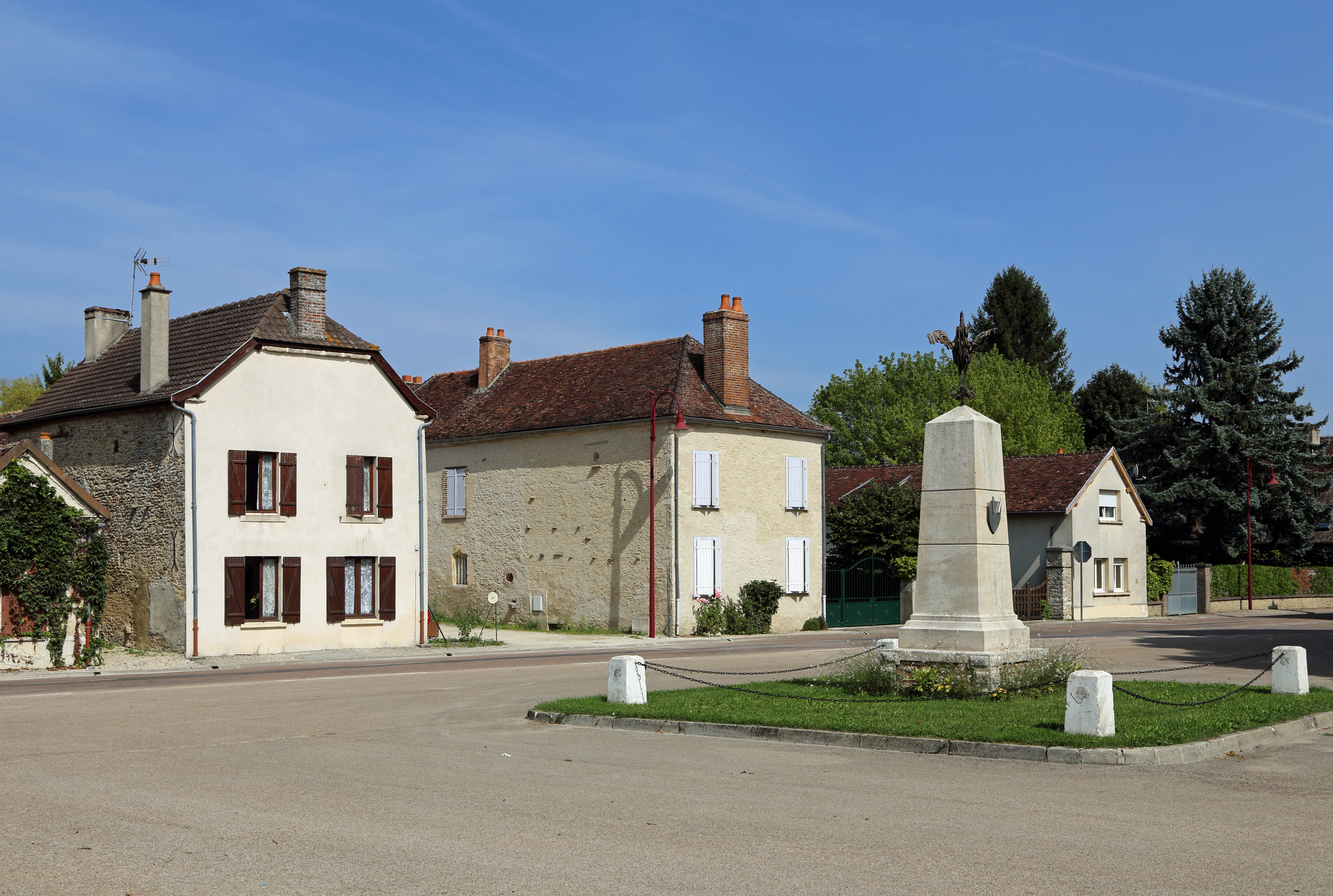 Fouchères (Aube department, France): Place de l'Église